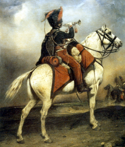 Trompette du 5e hussards sonnant le ralliement